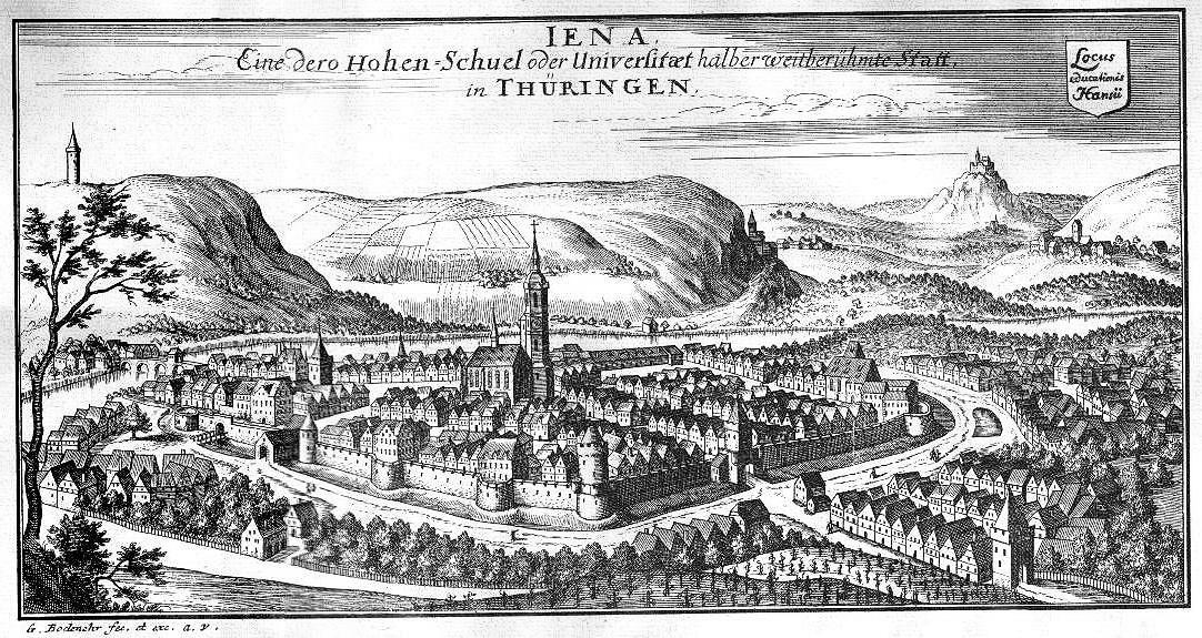 City of Jena 1720 by Bodenehr.